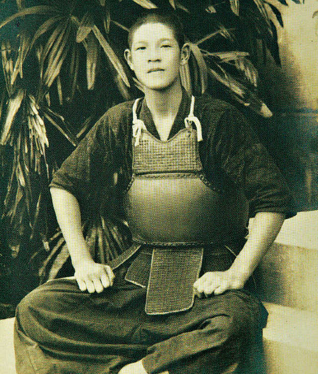 Lee Teng-hui,He was dressed in Japanese kimono, He practiced kendo.